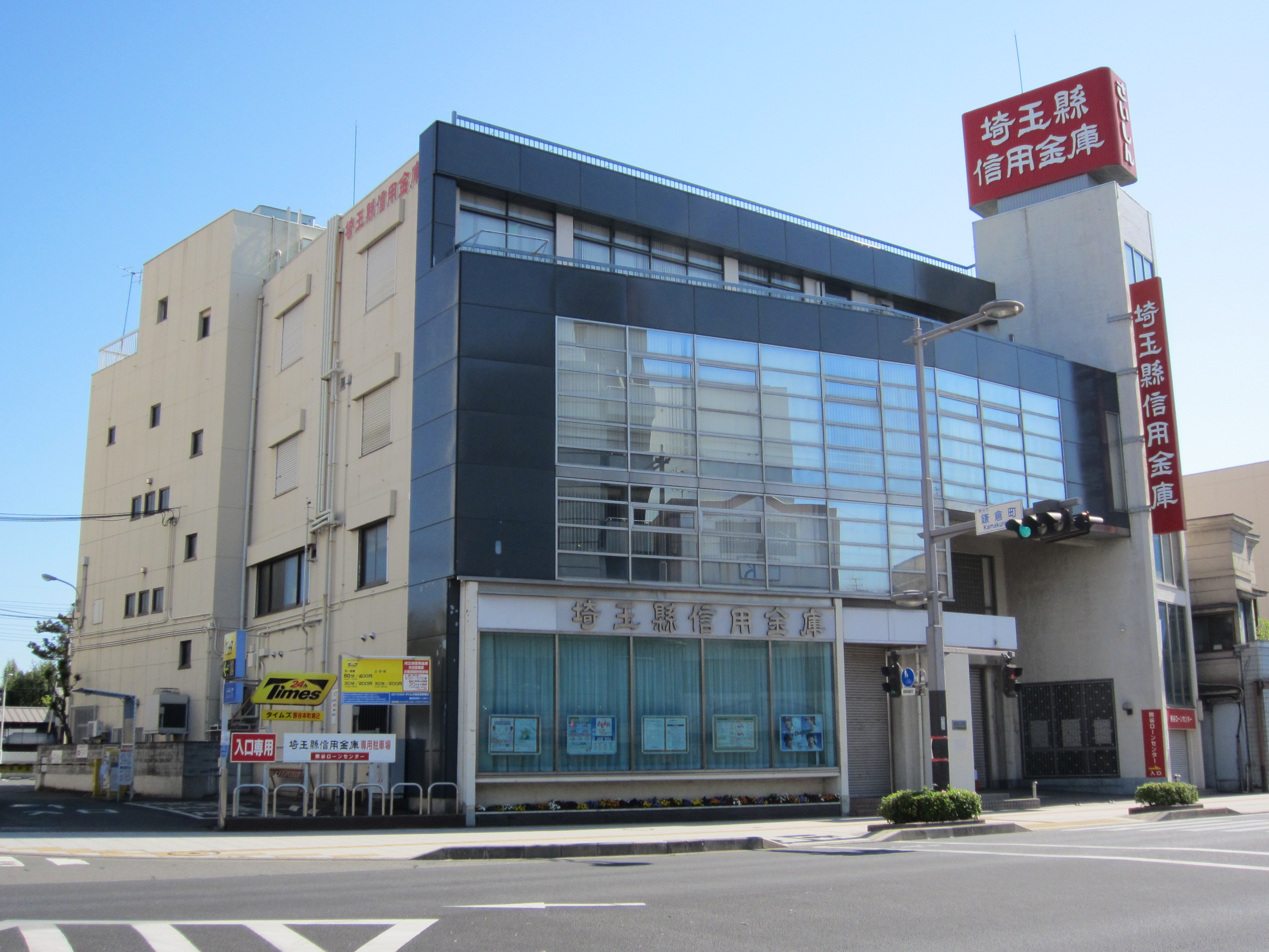 Saitama Shinkin Bank